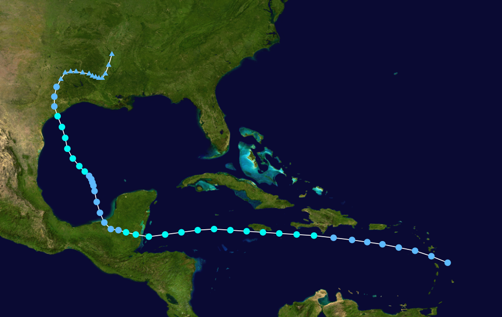 1933 Atlantic tropical storm 3 track. Uses the color scheme from the Saffir-Simpson Hurricane Scale.